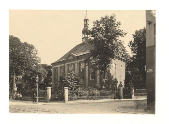 Vintage photo of Reformed Church on Gothersgade in Copenhagen, Denmark